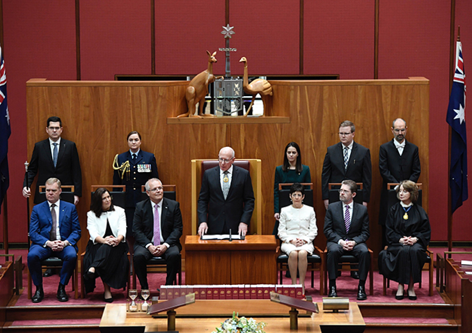 General David John Hurley at a ceremony to be sworn in as the 27th Governor-General of Australia